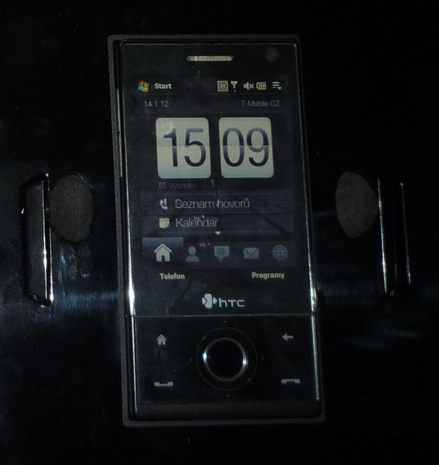 photo of HTC Touch Diamond